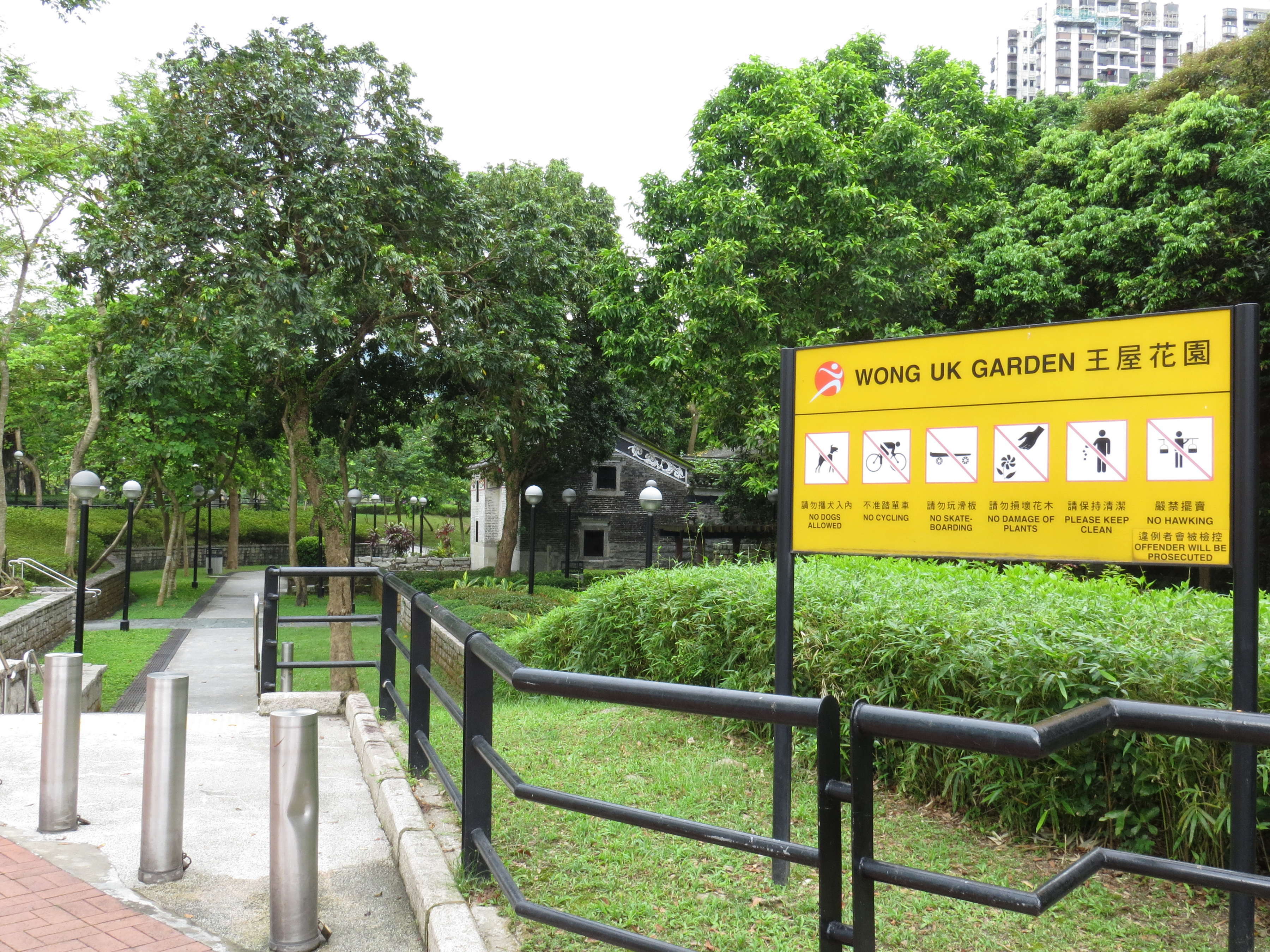 Wong Uk Garden, Sha Tin, New Territories, Hong Kong.